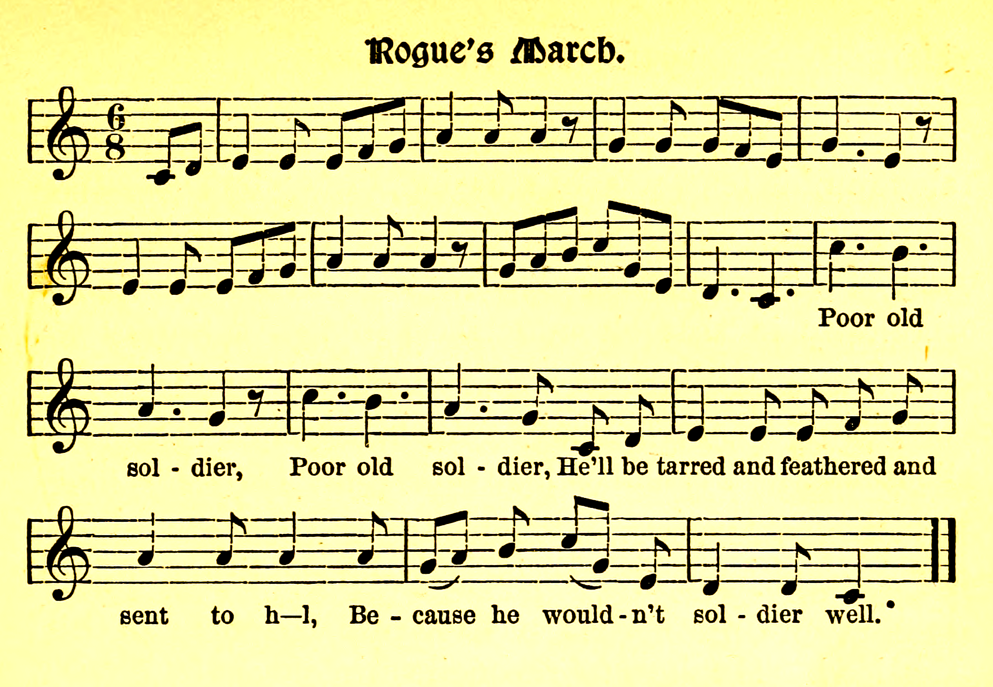 The Rogue's March showing how the lyrics were used in the American Army - according to General Custer's widow.